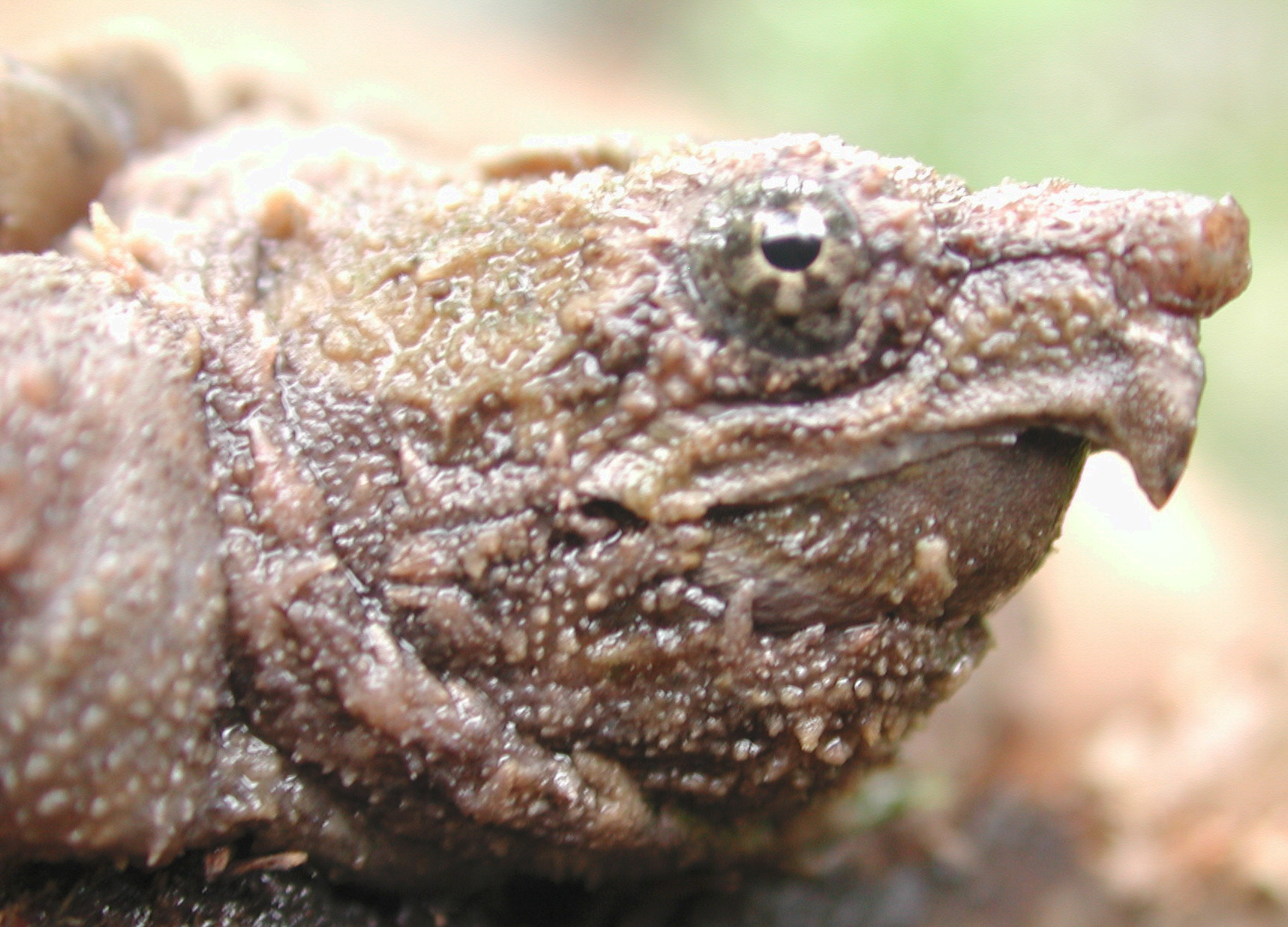 Head of an alligator snapping turtle less than a year old